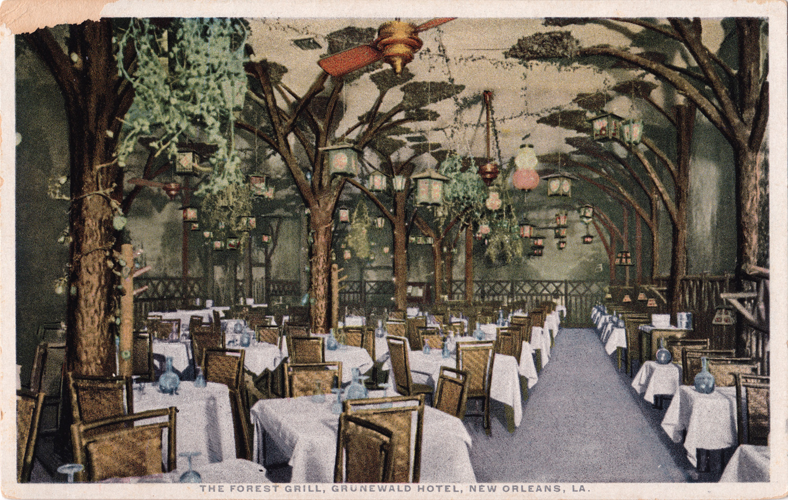 A rendering of the Forest Grill at the Hotel Grunewald. The Blue Room now stands where the Forest Grill once stood.